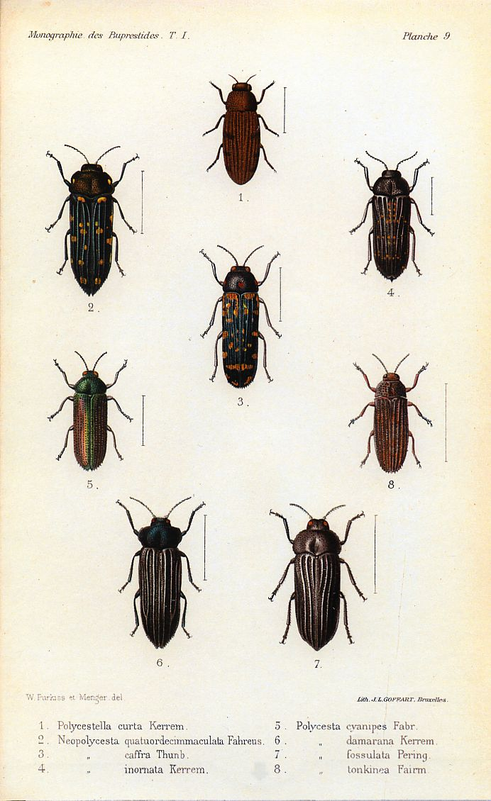 Polycestella curta Kerrem. = Polycestella curta (Kerremans, 1892) Neopolycesta quatuordecimmaculata Fahreus. = Polycestina quatuordecimmaculata (Fåhraeus, 1851) Neopolycesta caffra Thunb. = Neopolycesta caffra (Thunberg, 1787) Neopolycesta inornata Kerrem. (non Péringuey 1888: preoccupied) = Paracastalia inornata (Kerremans, 1906) Polycesta cyanipes Fabr. = Polycesta cyanipes (Fabricius, 1787) Polycesta damarana Kerrem. = Polycestina damarana (Kerremans, 1906) Polycesta fossulata Pering. = Polycesta fossulata (Péringuey, 1886) Polycesta tonkinea Fairm. = Polycesta tonkinea Fairmaire, 1889 1902)